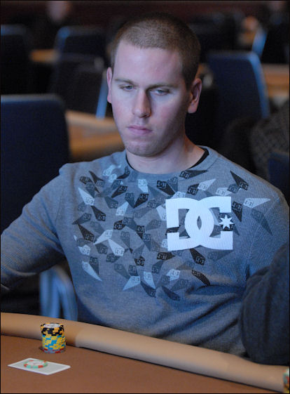 Jeff Madsen at the 2008 Five Diamond World Poker Classic